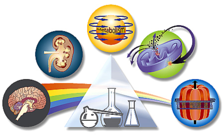 The image was designed for the Laboratory of Pharmacology at the National Institute of Environmental Health Sciences. The five separate images represent the five primary areas of pharmacological research as defined by the individual group leaders of the Laboratory of Pharmacology. They are, from left to right, the brain, the kidneys, metabolism, free radicals and mitochondria, and membrane transport. The rainbow and prism represent photobiology and the beakers represent chemistry.